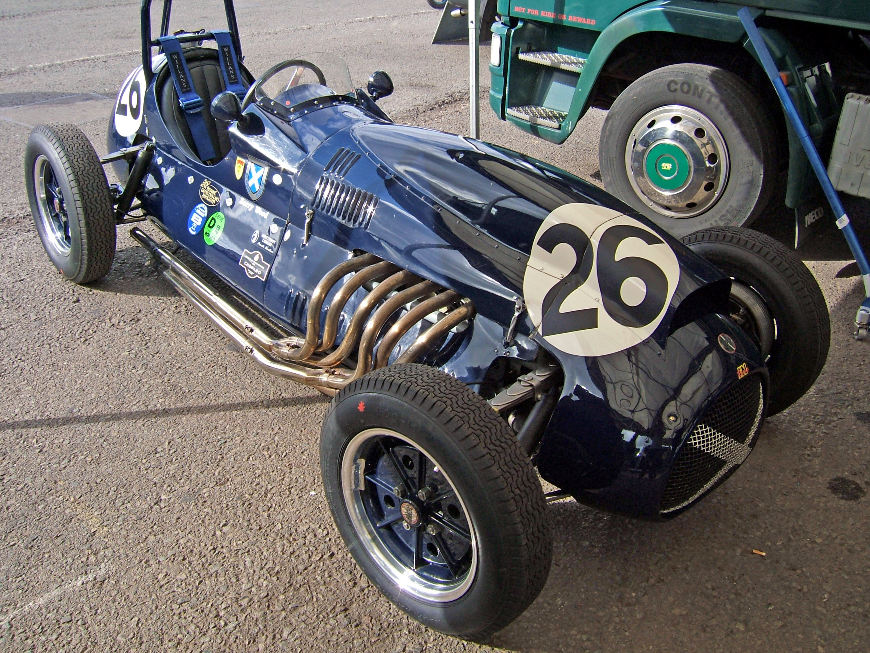 An ex-Ecurie Ecosse Cooper Bristol Formula Two car waits in the paddock of the VSCC SeeRed race meeting, Donington Park, September 2007.